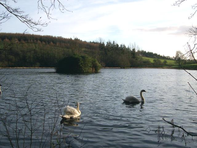 Falcondale Lake Falcondale Lake is situated a short distance off the A482 on the opposite side of this road to the Falcondale Hotel just outside Lampeter.